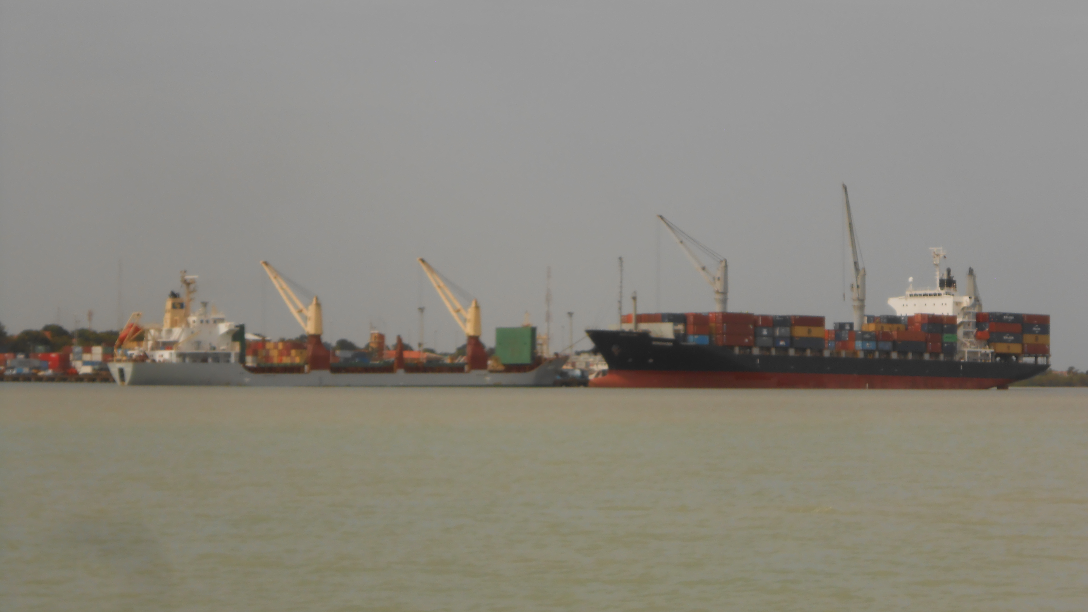 Reaching the port of Bissau.